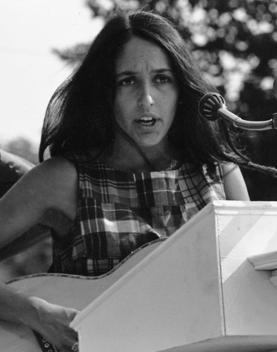 Civil Rights March on Washington, D.C. [Entertainment: Vocalist Joan Baez. A sign hanging near the microphones reads "We Shall Overcome." ], 08/28/1963